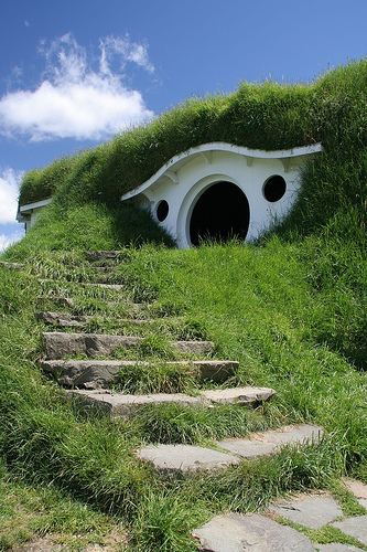 a represention of a hobbit hole, at hobitton-matamata, new zealand.